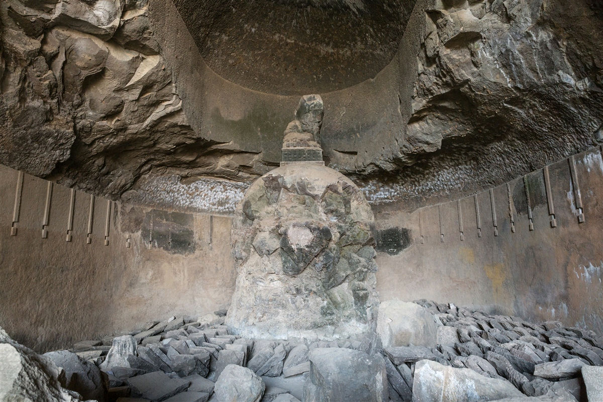 Kondana Chaitya dagoba